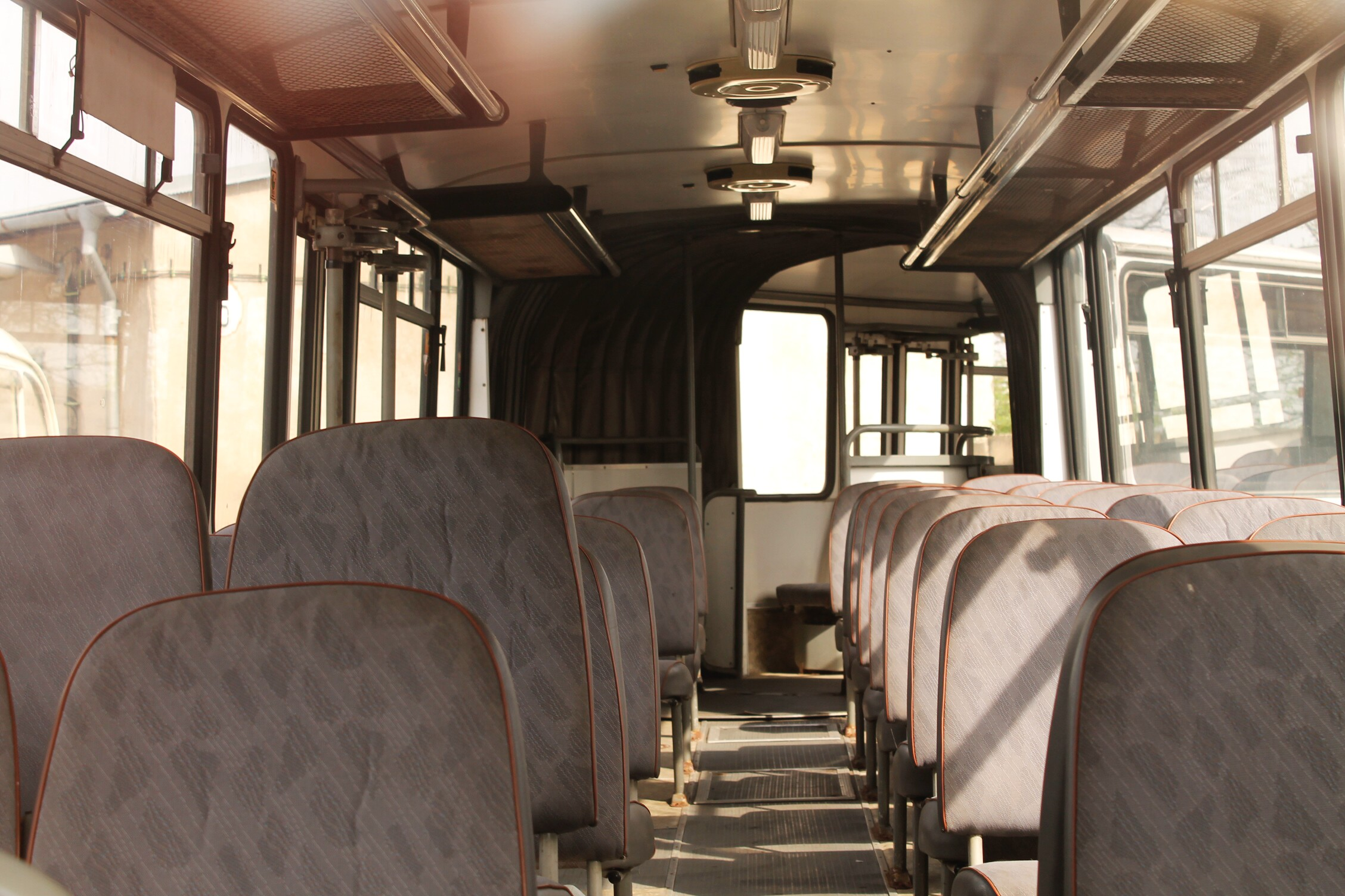 Karosa C 744.24 (ex DPÚK) historical bus, depository of Technical Museum in Brno, Czech Republic